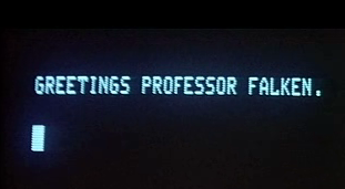 Test recreation of WarGames, "Greetings Professor Falken"